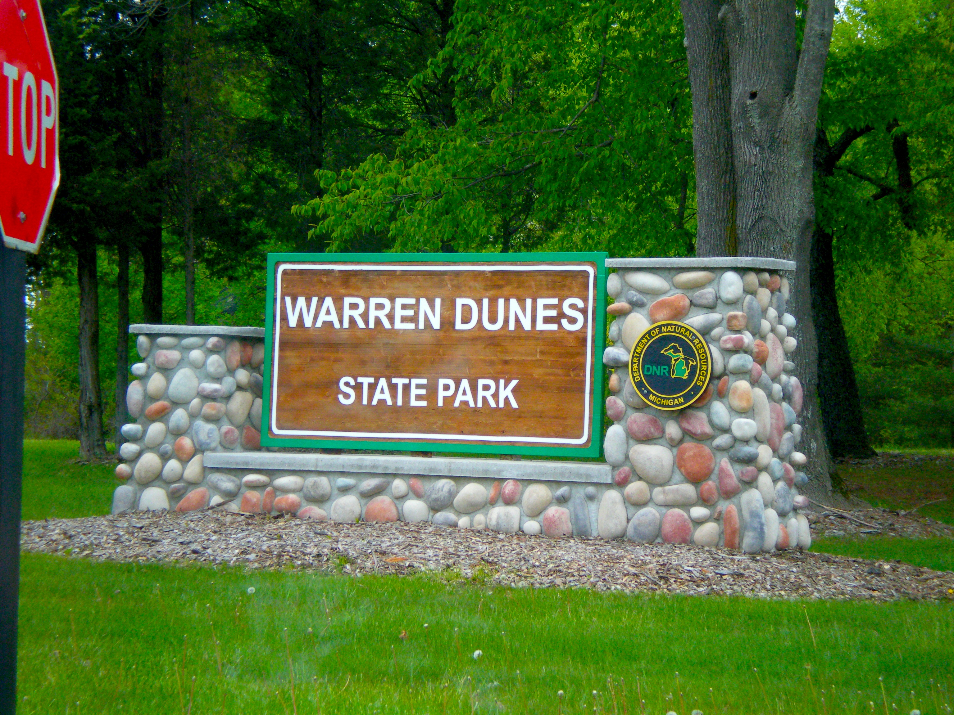 This is on the way out of the dunes.